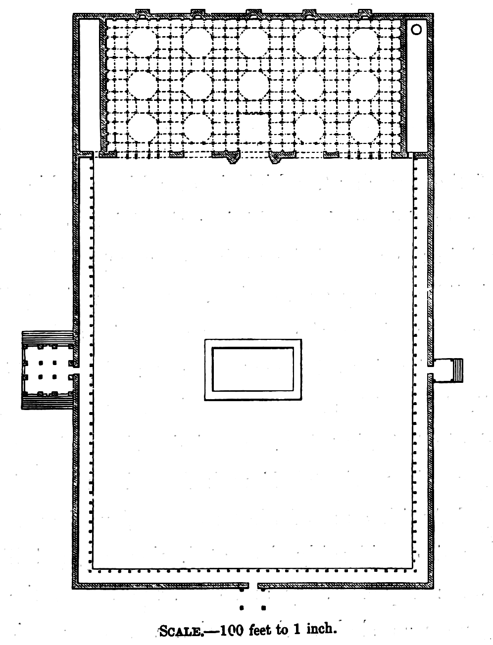 Image taken from: Title: "Architecture at Ahmedabad, the Capital of Goozerat, photographed by Colonel Biggs, ... With an historical and descriptive sketch, by T. C. H., ... and architectural notes by J. Fergusson, etc" Author: HOPE, Theodore Cracraft - Sir, K.C.S.I Contributor: BIGGS, Thomas. Contributor: FERGUSSON, James - Architect Shelfmark: "British Library HMNTS 10057.f.17.", "British Library OC V 6665" Page: 69 Place of Publishing: London Date of Publishing: 1866 Issuance: monographic Identifier: 001730119 Explore: Find this item in the British Library catalogue, 'Explore'. Download the PDF for this book (volume: 0) Image found on book scan 69 (NB not necessarily a page number) Download the OCR-derived text for this volume: (plain text) or (json) Click here to see all the illustrations in this book and click here to browse other illustrations published in books in the same year. Order a higher quality version from here.